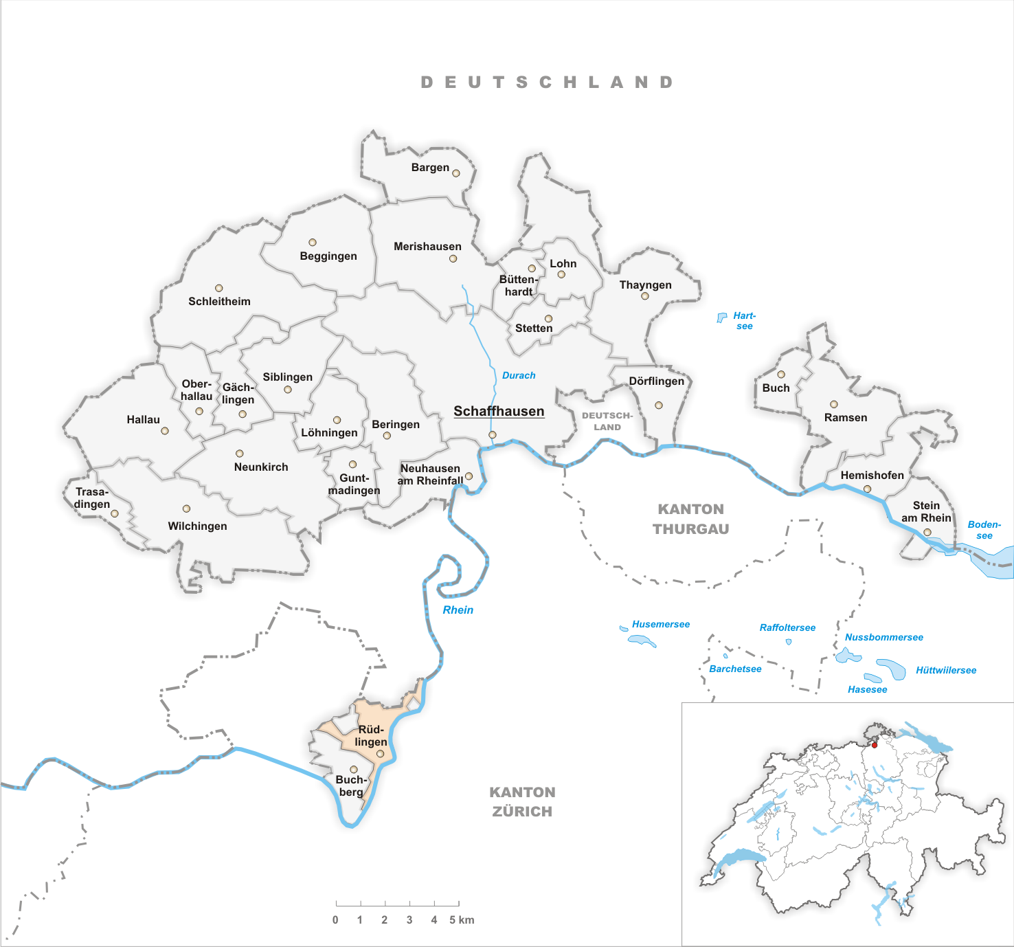 Municipality Rüdlingen